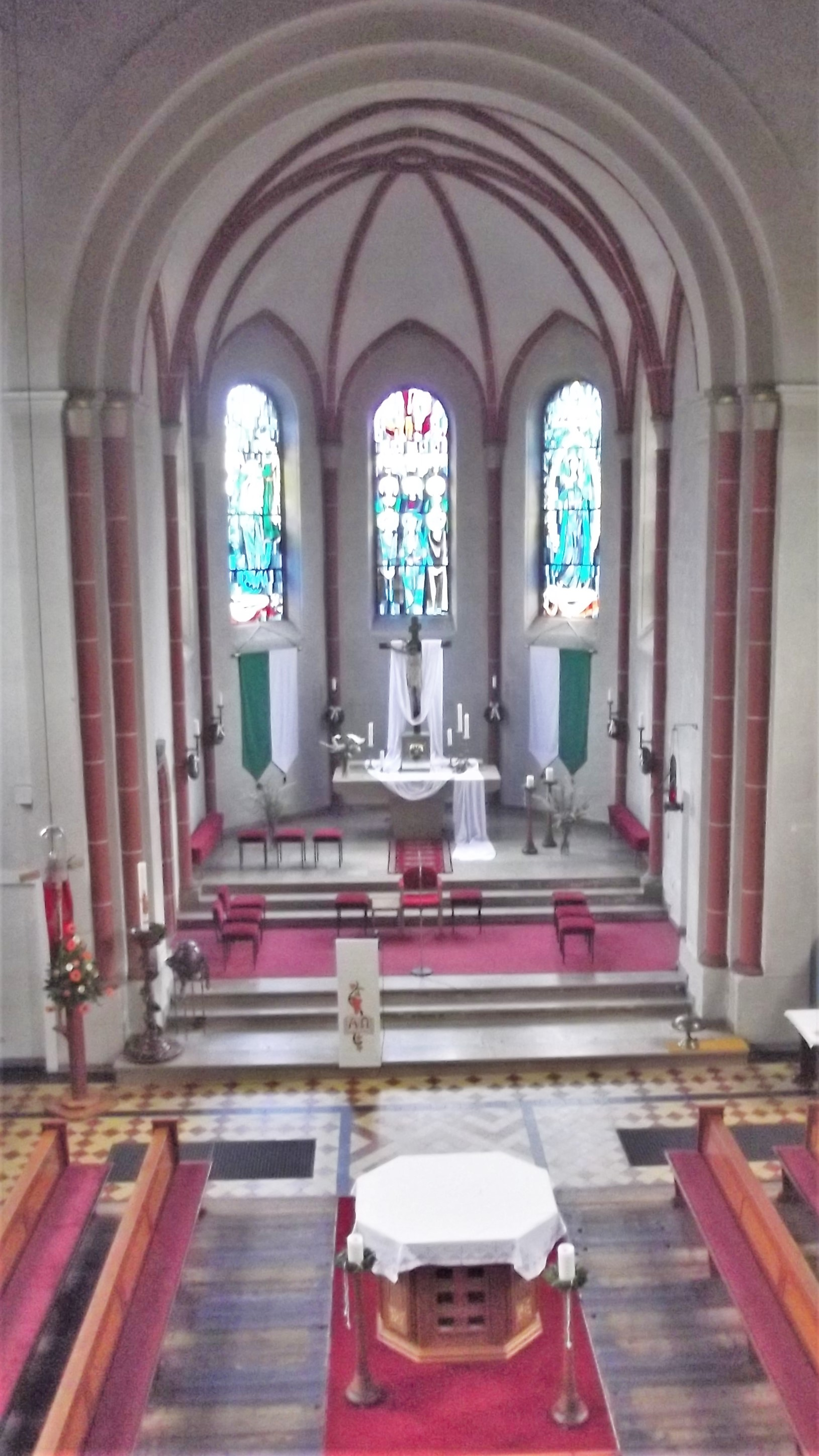 Interior of the roman catholic church in Namborn, Saarland